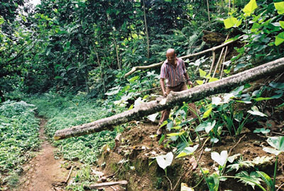 The equatorial island Sao Tomé Photograph by Henryk Kotowski